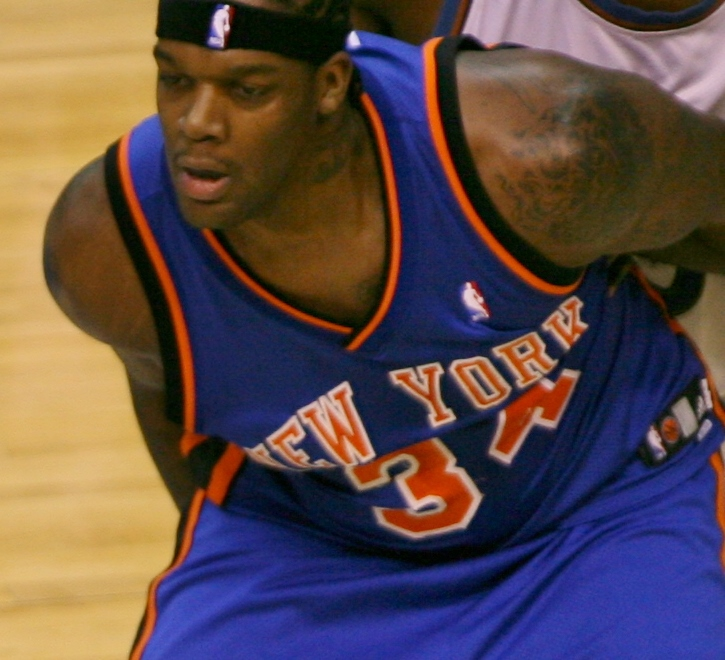 New York Knicks player Stephon Marbury passes the ball to Eddy Curry during a game against the Washington Wizards at the Verizon Center, Washington, D.C., Jan. 17, 2007. Gilbert Arenas guards Marbury.